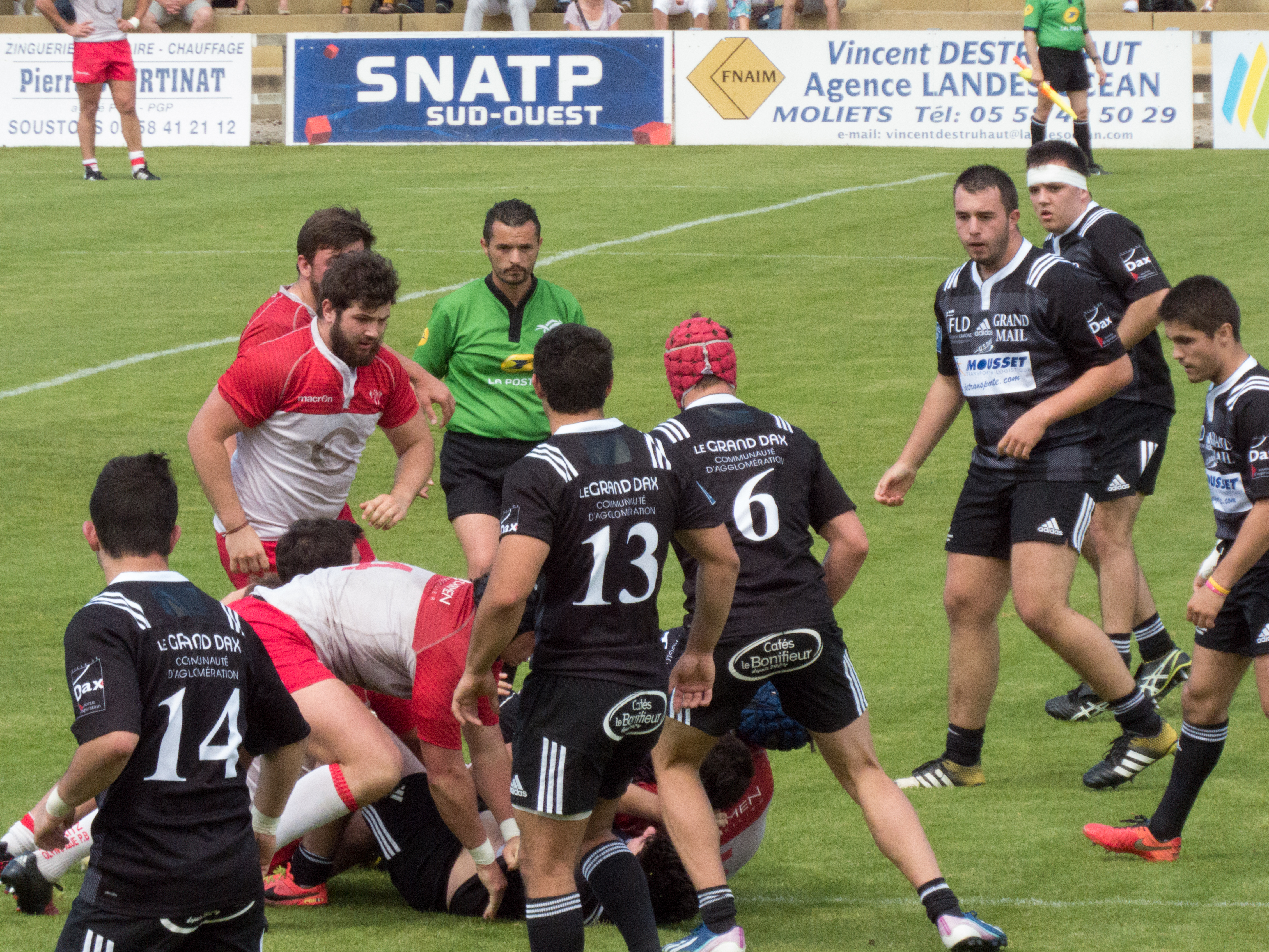 Championnat de France espoirs 2016-2017 (rugby union) — 21 May 2017, Stade Rémy-Goalard. Match between: Biarritz Olympique — US Dax